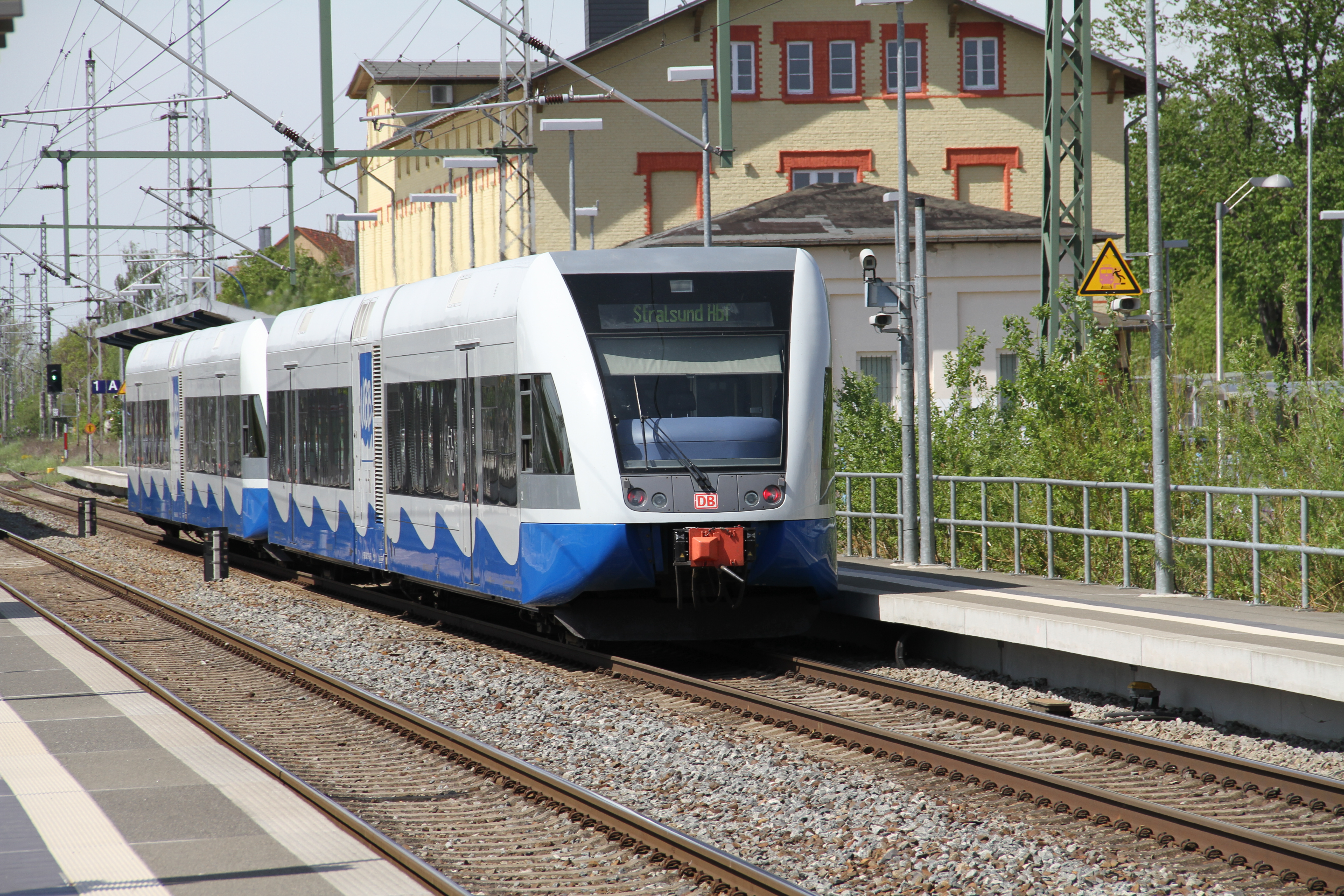 Bahnhof Greifswald (Greifswald main station) in May 2012.